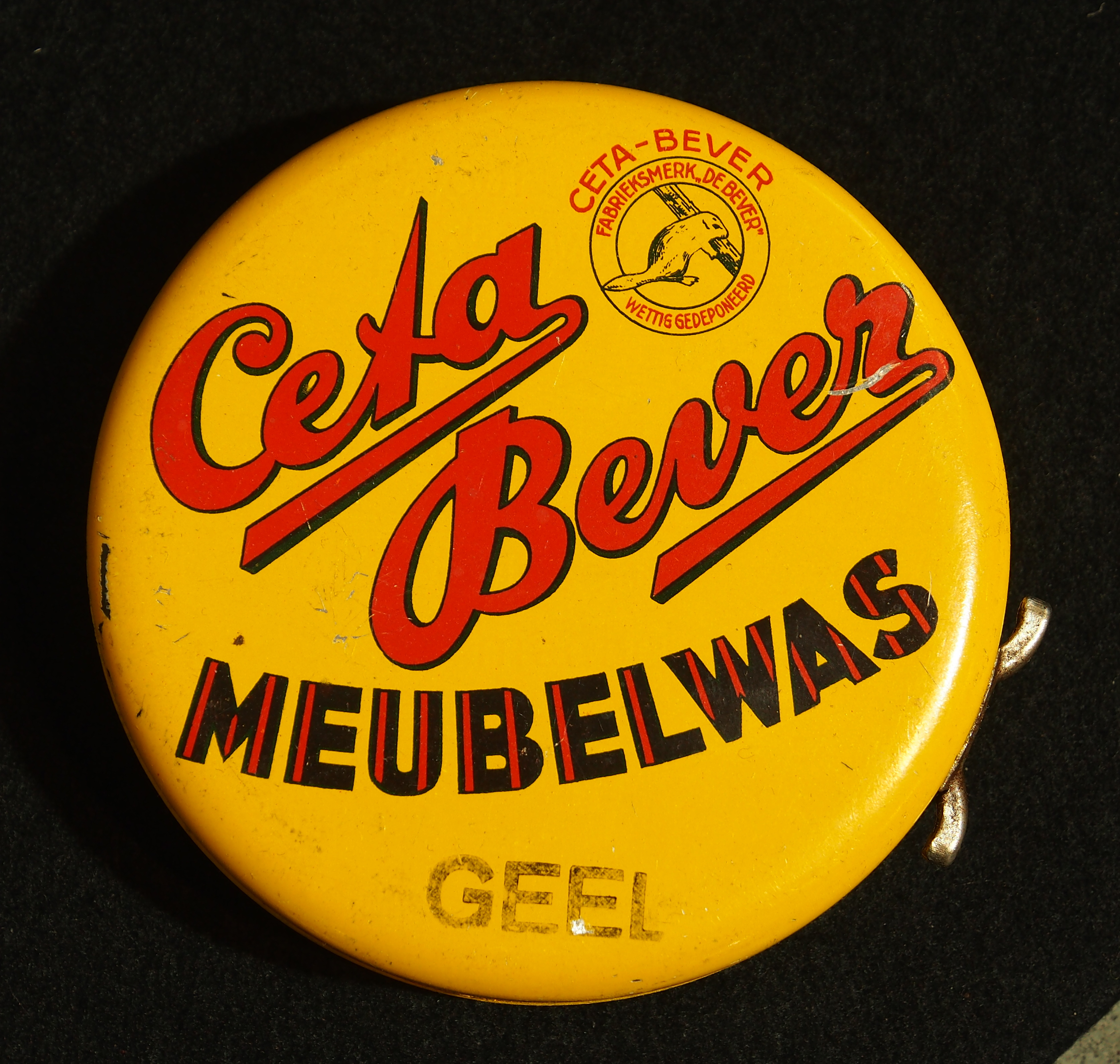 Very old packaging of a Dutch product that is not produced and/or sold any more.